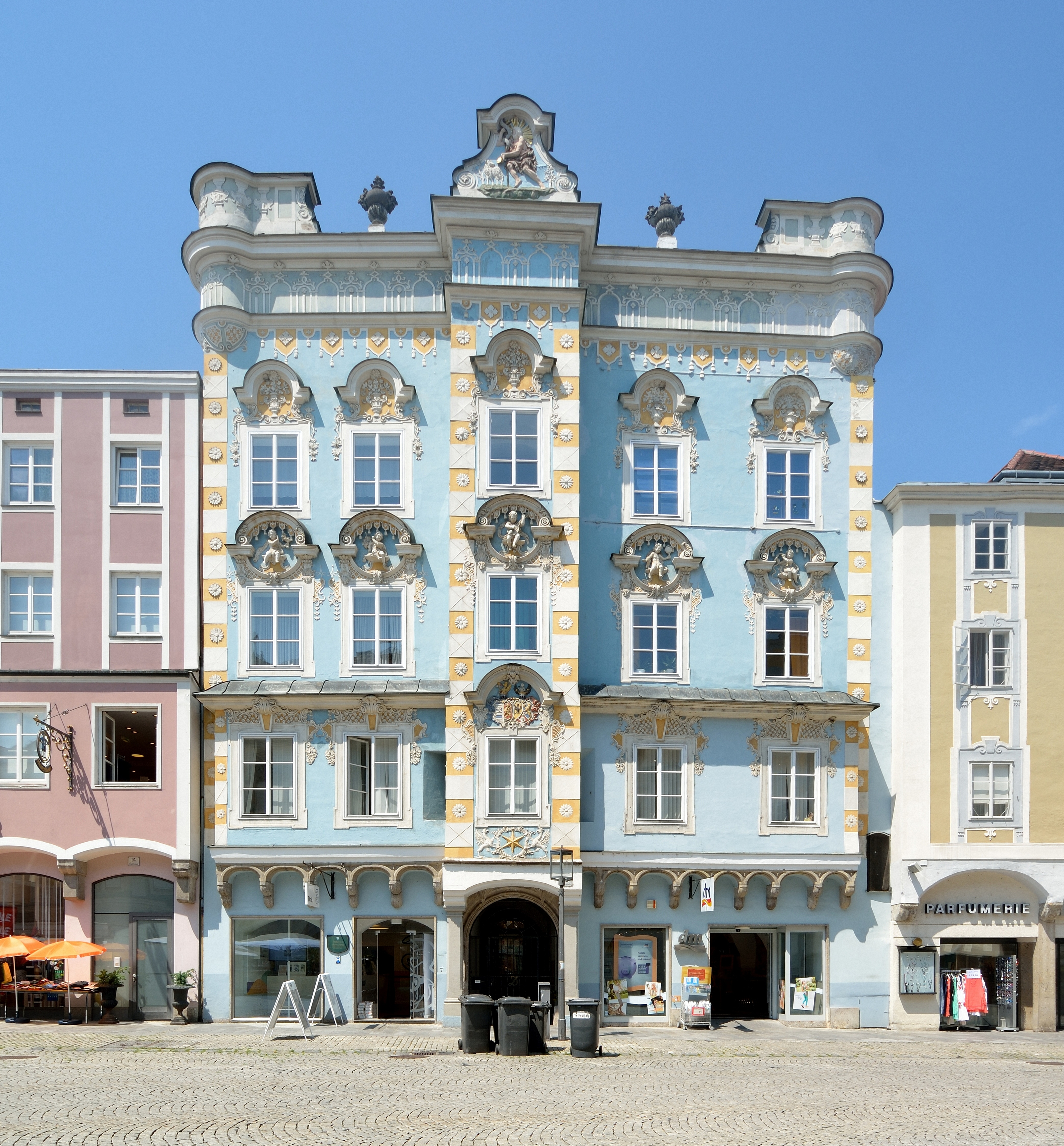 Sternhaus Stadtplatz 12, Steyr, Upper Austria